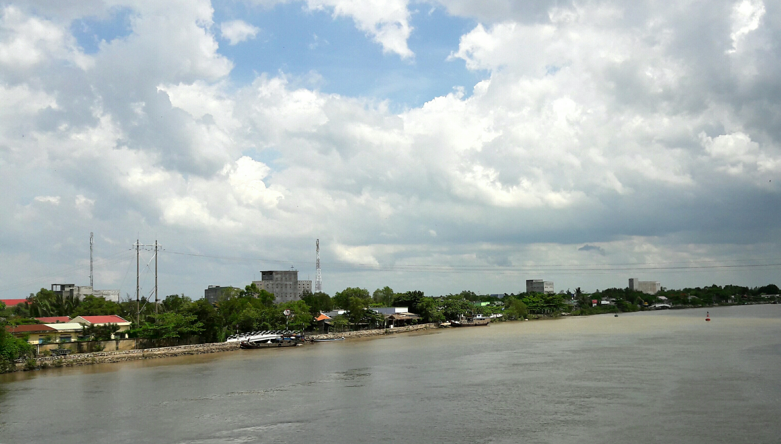 Vam Sat River, Can Gio District, HCMC, Vietnam